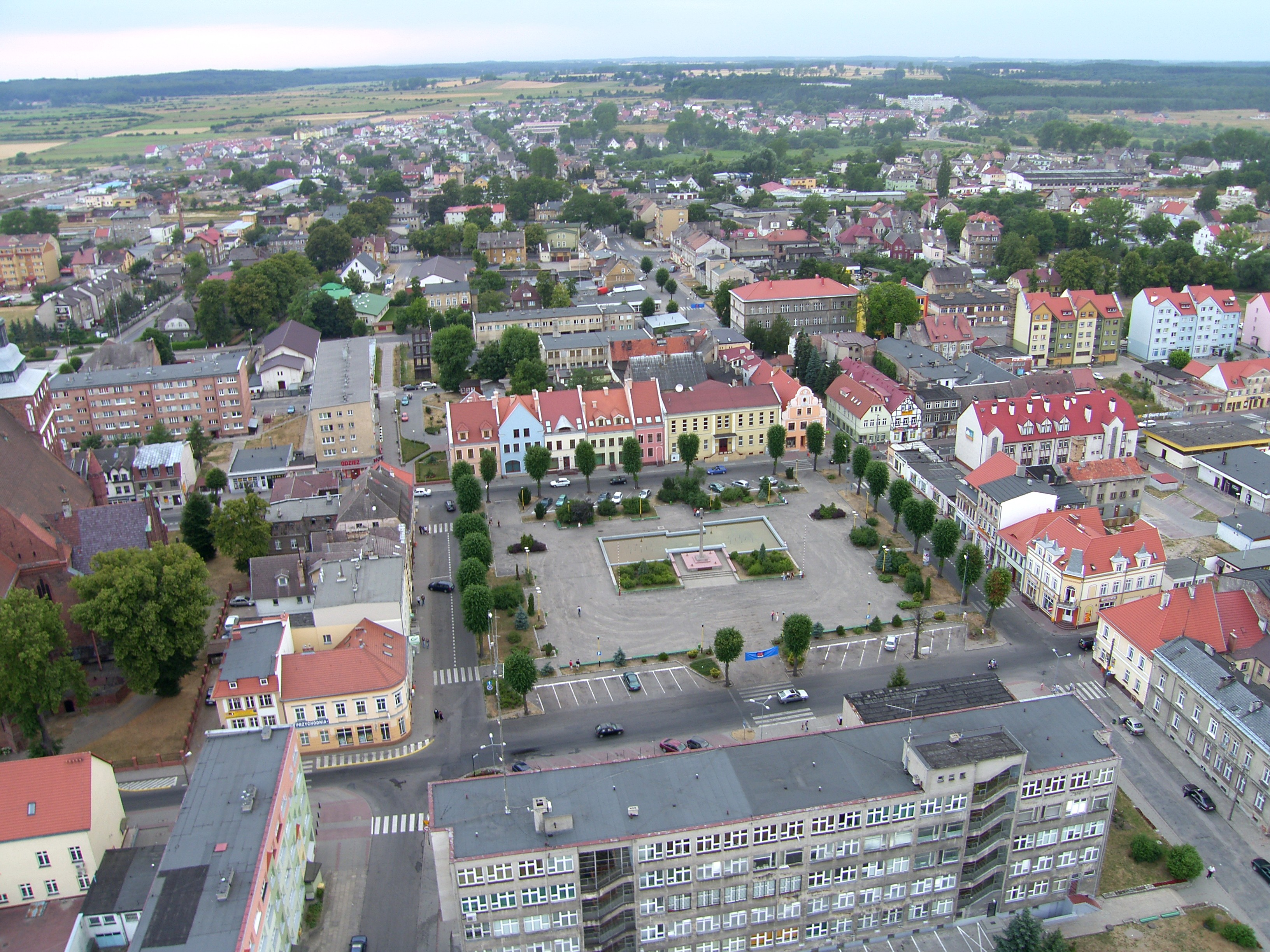 Bird's-eye view on Gryfice (Poland)